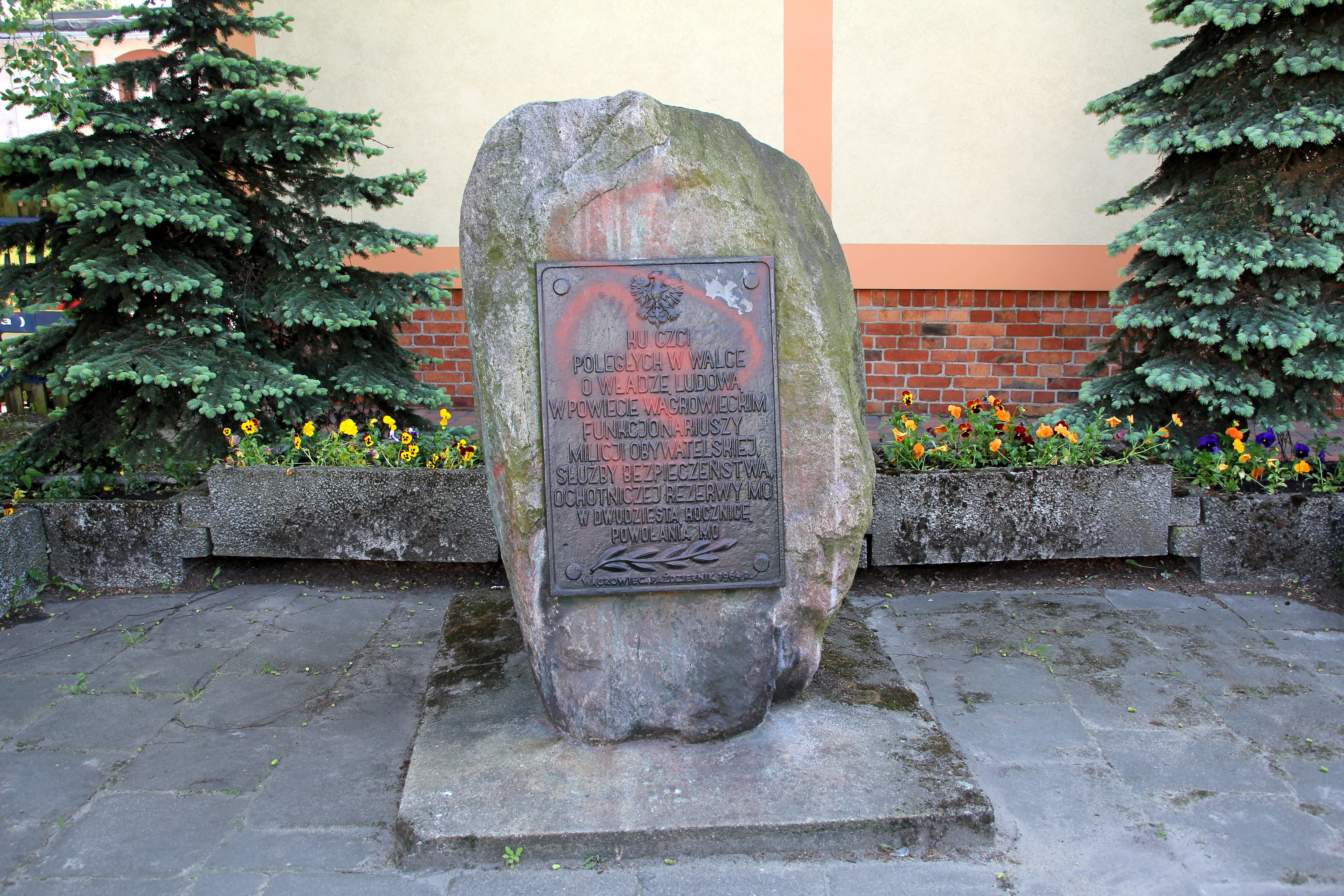 The Służba Bezpieczeństwa (Security Service of the Ministry of Internal Affairs) and Milicja Obywatelska (Civic Militia) communist Monument in Wągrowiec (Poland). Monument was destroyed 2015.